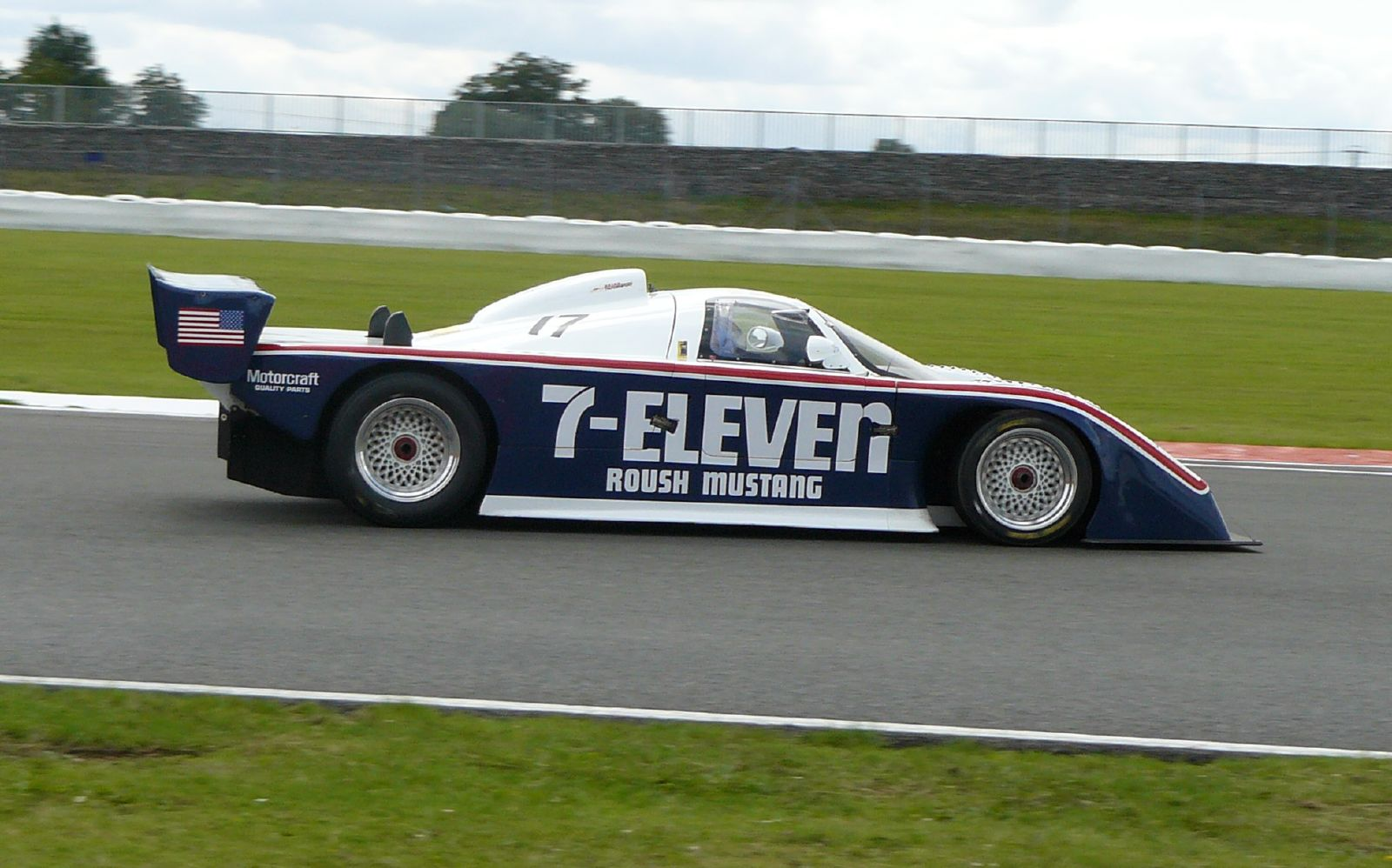 A Ford Mustang Probe GTP at the Silverstone Classic